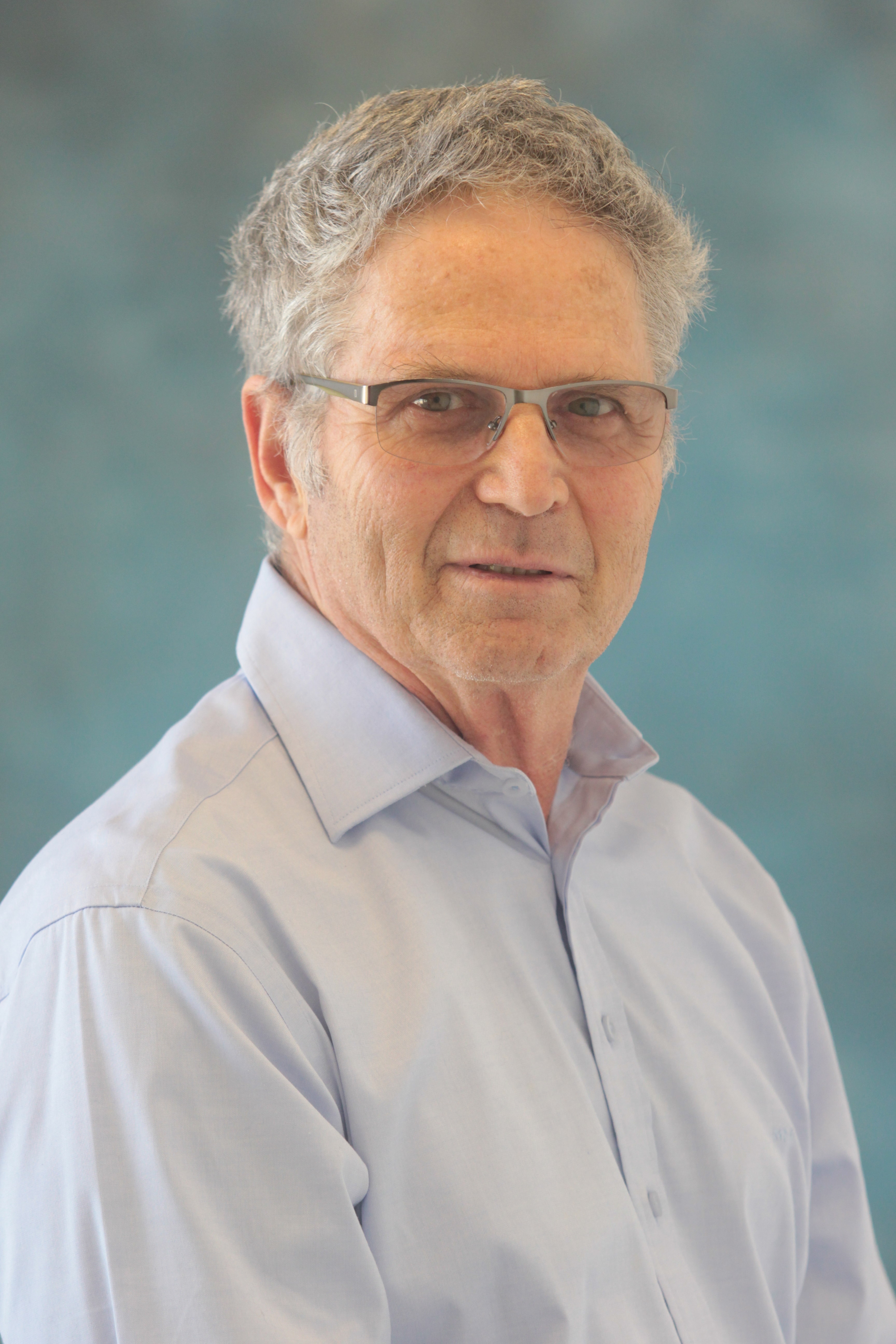 Portrait of J. Avron